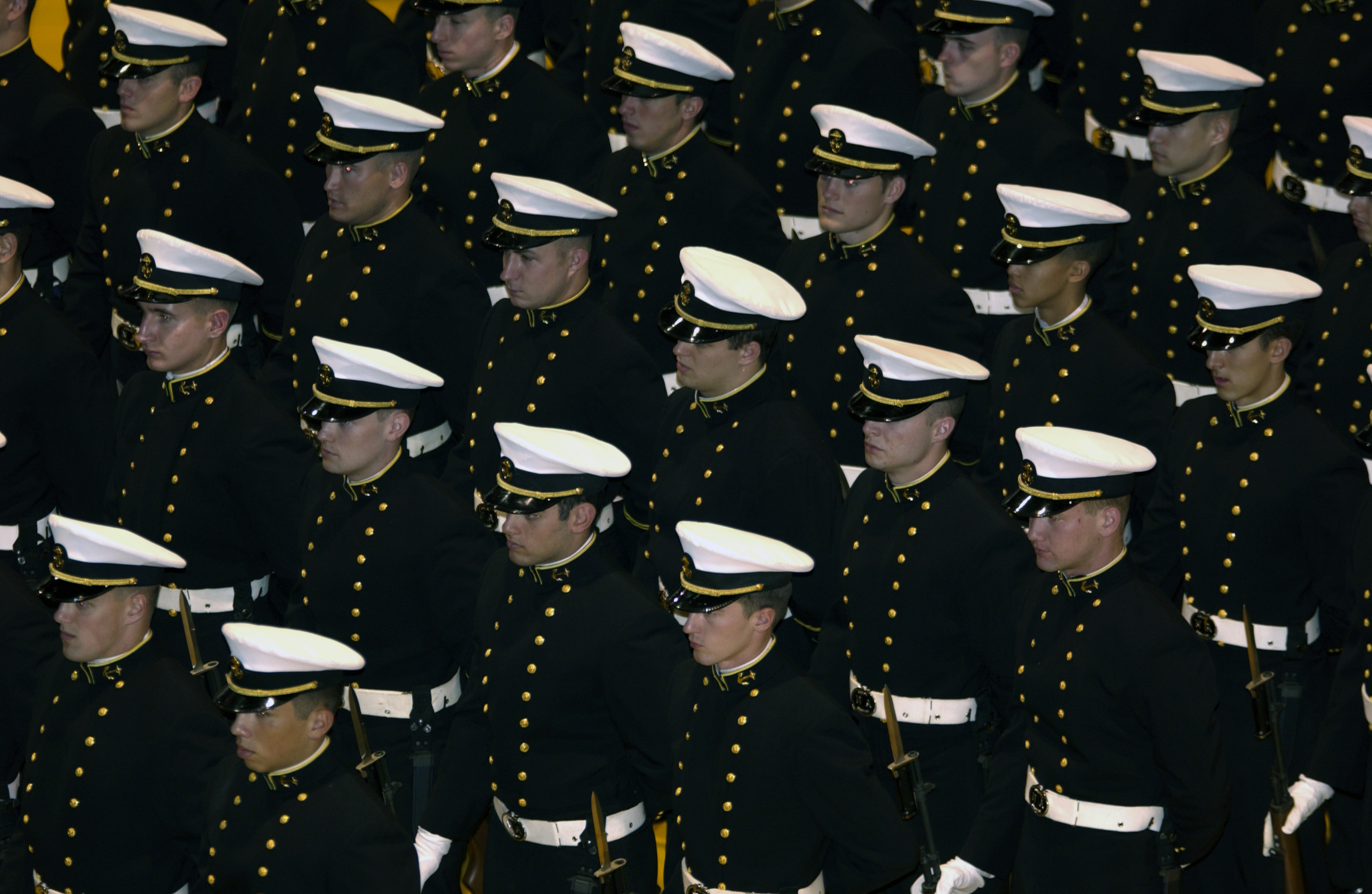 U.S. Naval Academy, Md. (Nov. 21, 2003) -- U.S. Naval Academy Midshipmen stand at parade-rest during a ceremony in Alumni Hall honoring distinguished graduates. U.S. Navy photo by Photographer's Mate 2nd Class Damon J. Moritz. (RELEASED)